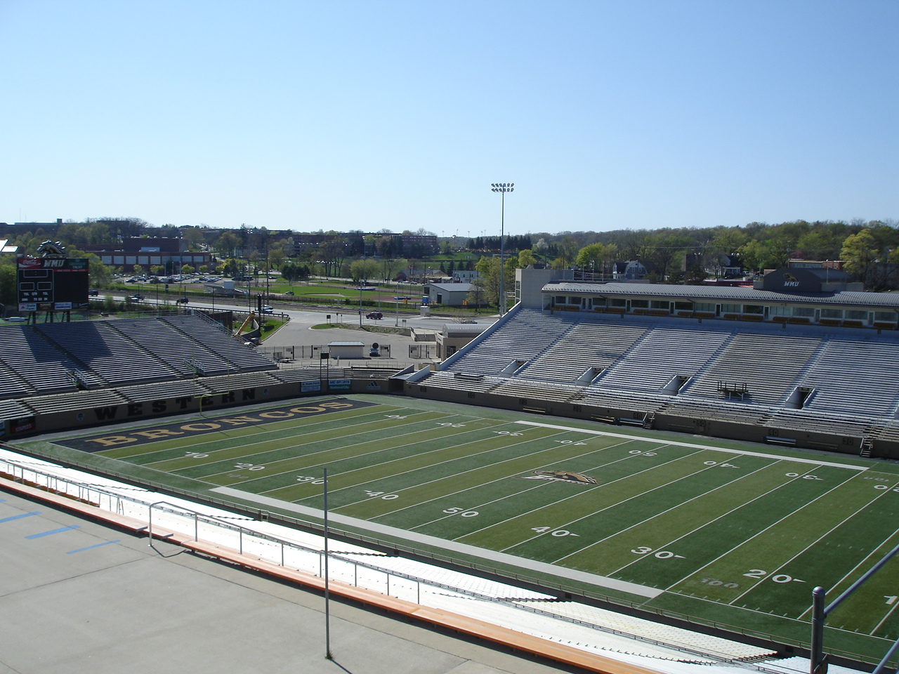 A view of the playing field at Waldo Stadium, located in Kalamazoo, MI.